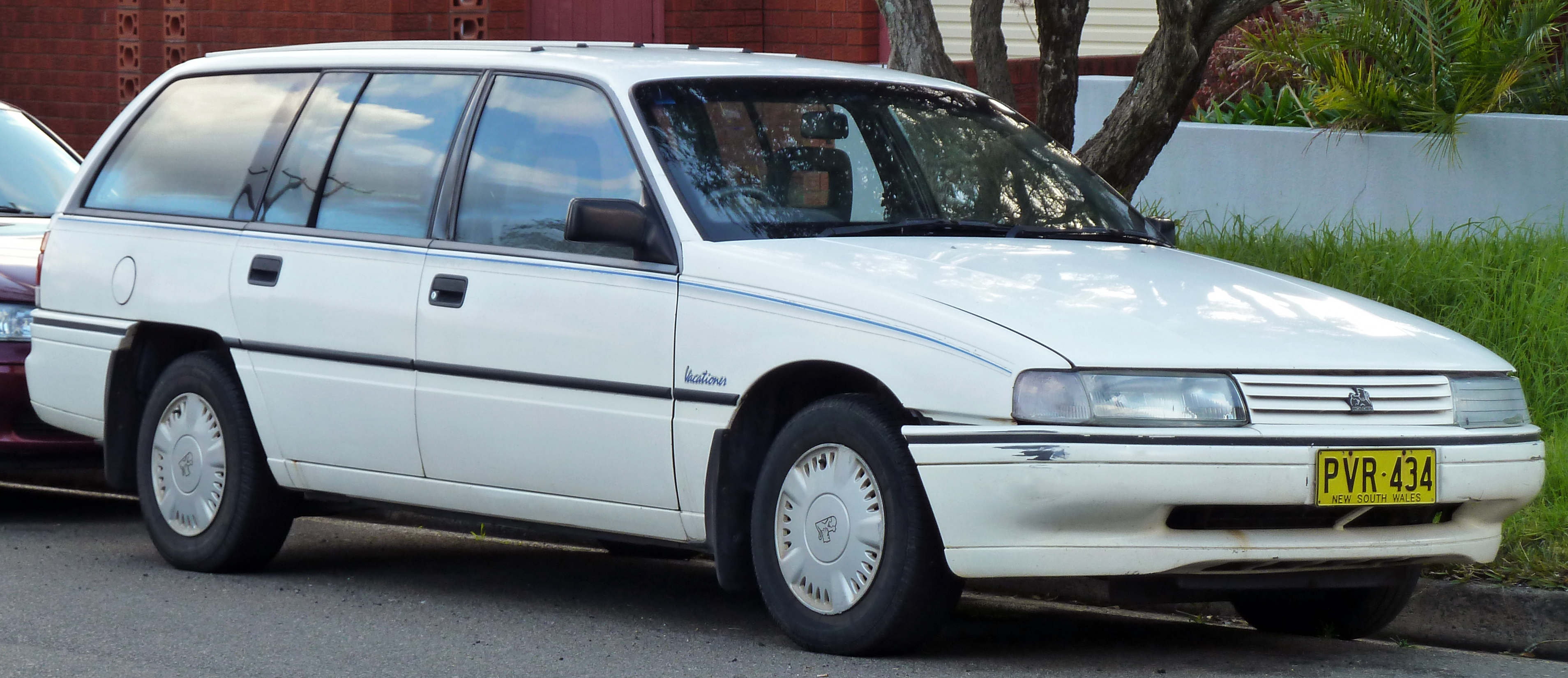 1990 Holden VN Commodore Vacationer station wagon. Photographed in Sans Souci, New South Wales, Australia.